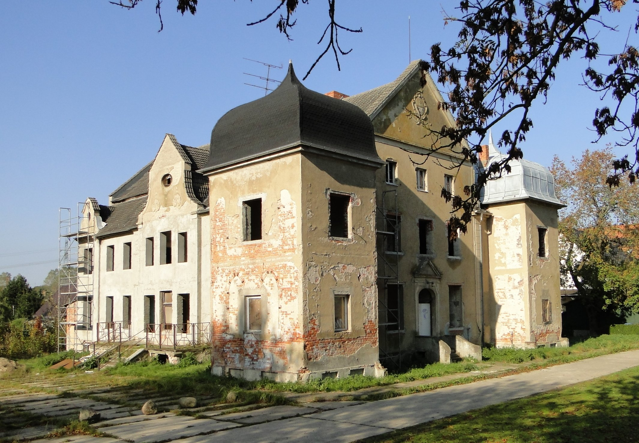 Manor in Chemnitz, district Mecklenburg-Strelitz, Mecklenburg-Vorpommern, Germany